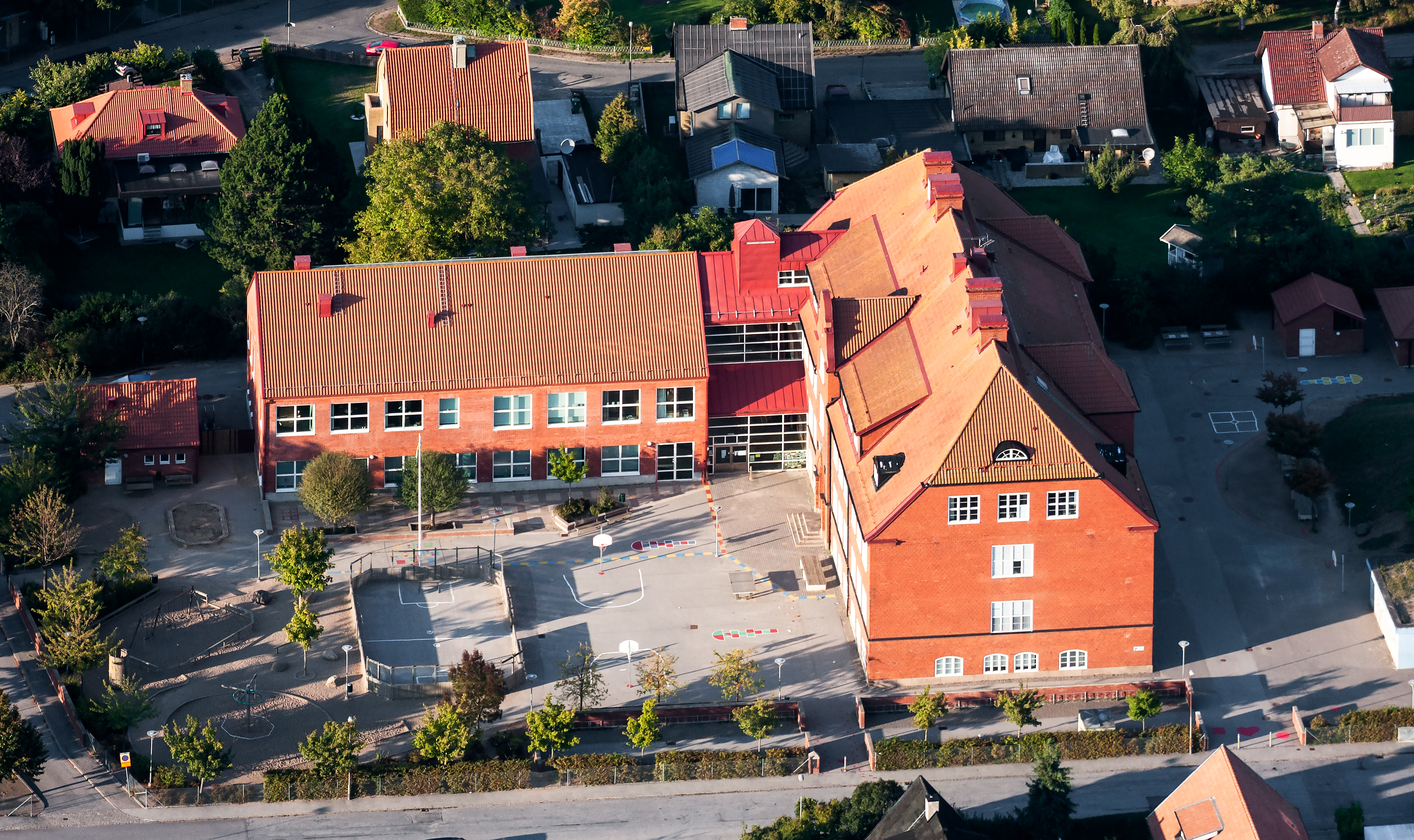 Kulladalsskolan, preschool and elementary school in Malmö, Sweden